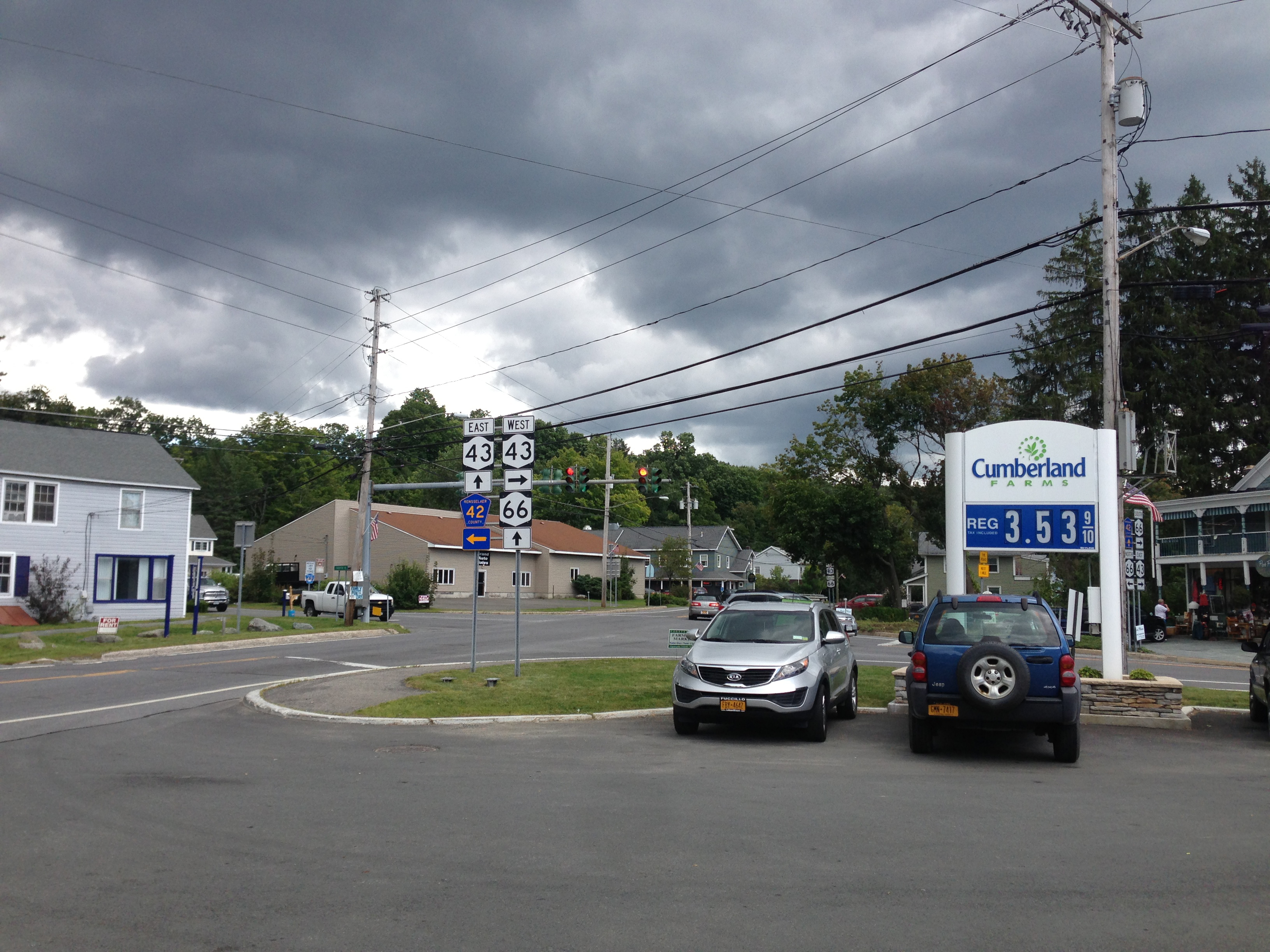 Intersection of West Sand Lake Road (New York State Route 43), Miller Hill Road (New York State Route 66) and Taborton Road (Rensselaer County Route 42) in Sand Lake, New York